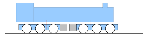 Meyer articulated steam locomotive. Cylinders are in gray, articulation points in red.